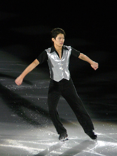 Takahiko Kozuka during his exhibition program at the 2007 Cup of Russia